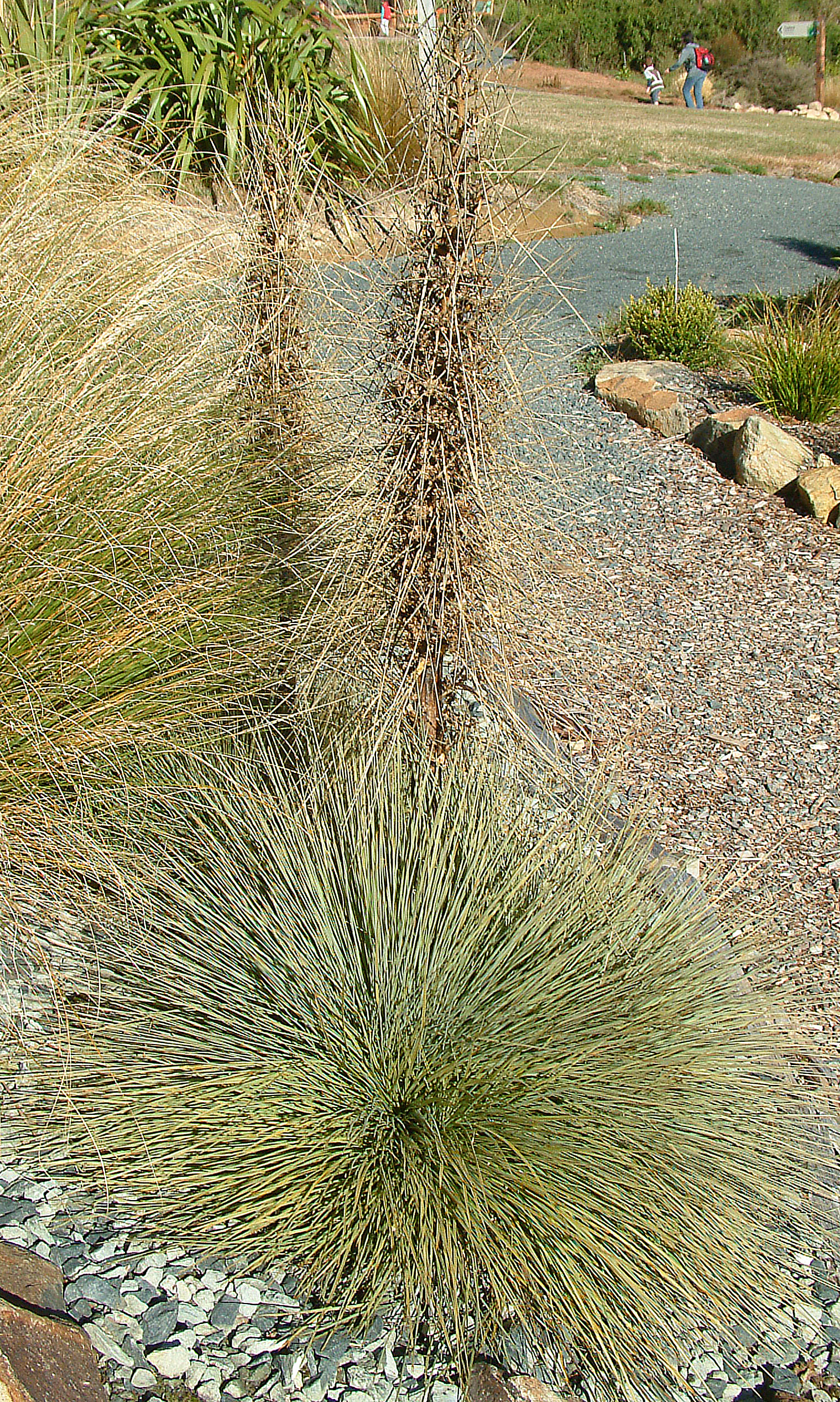 Aciphylla glaucescens (speargrass) in Orokonui sanctuary, showing spike.